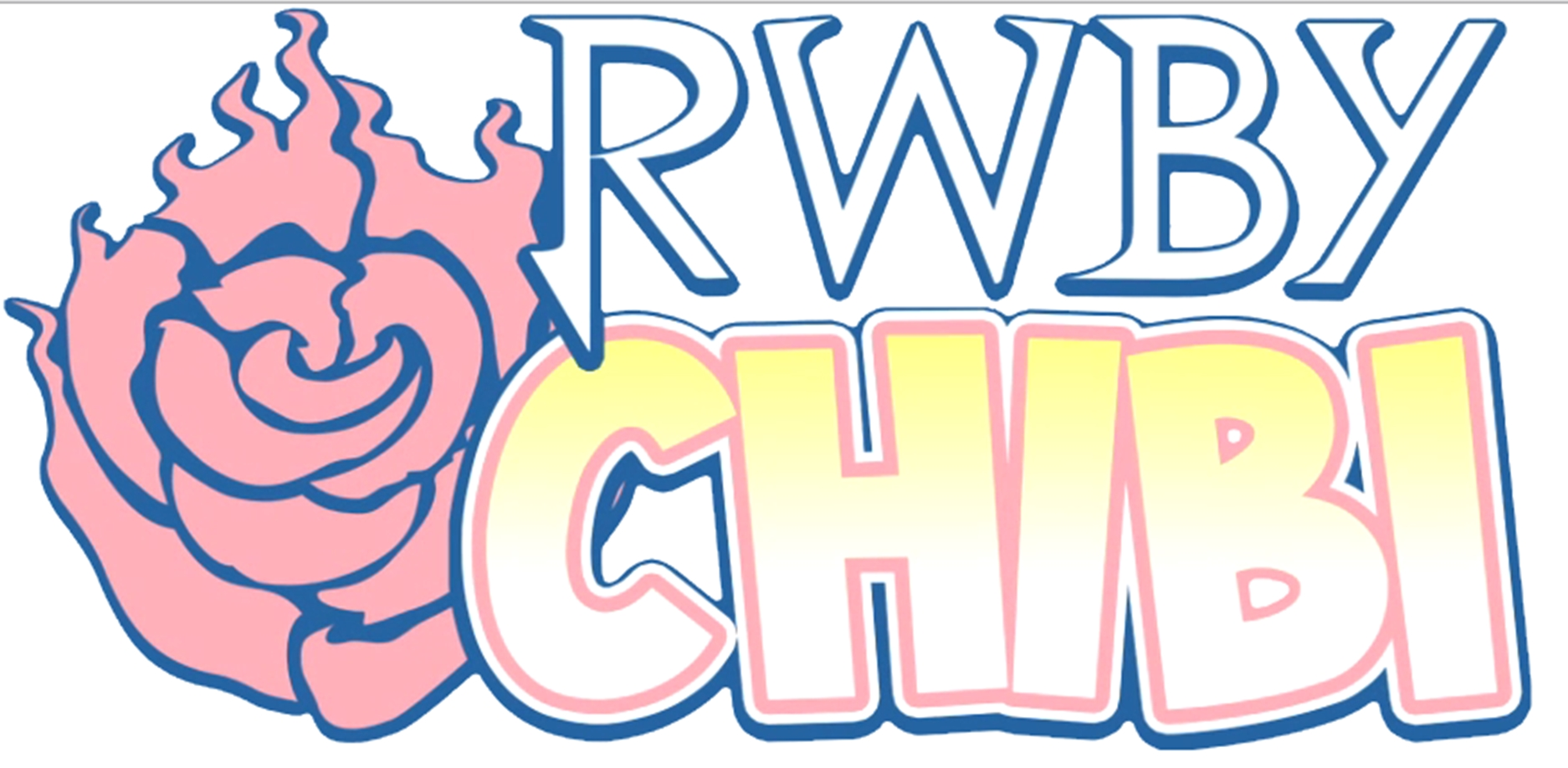 RWBY Chibi Logo